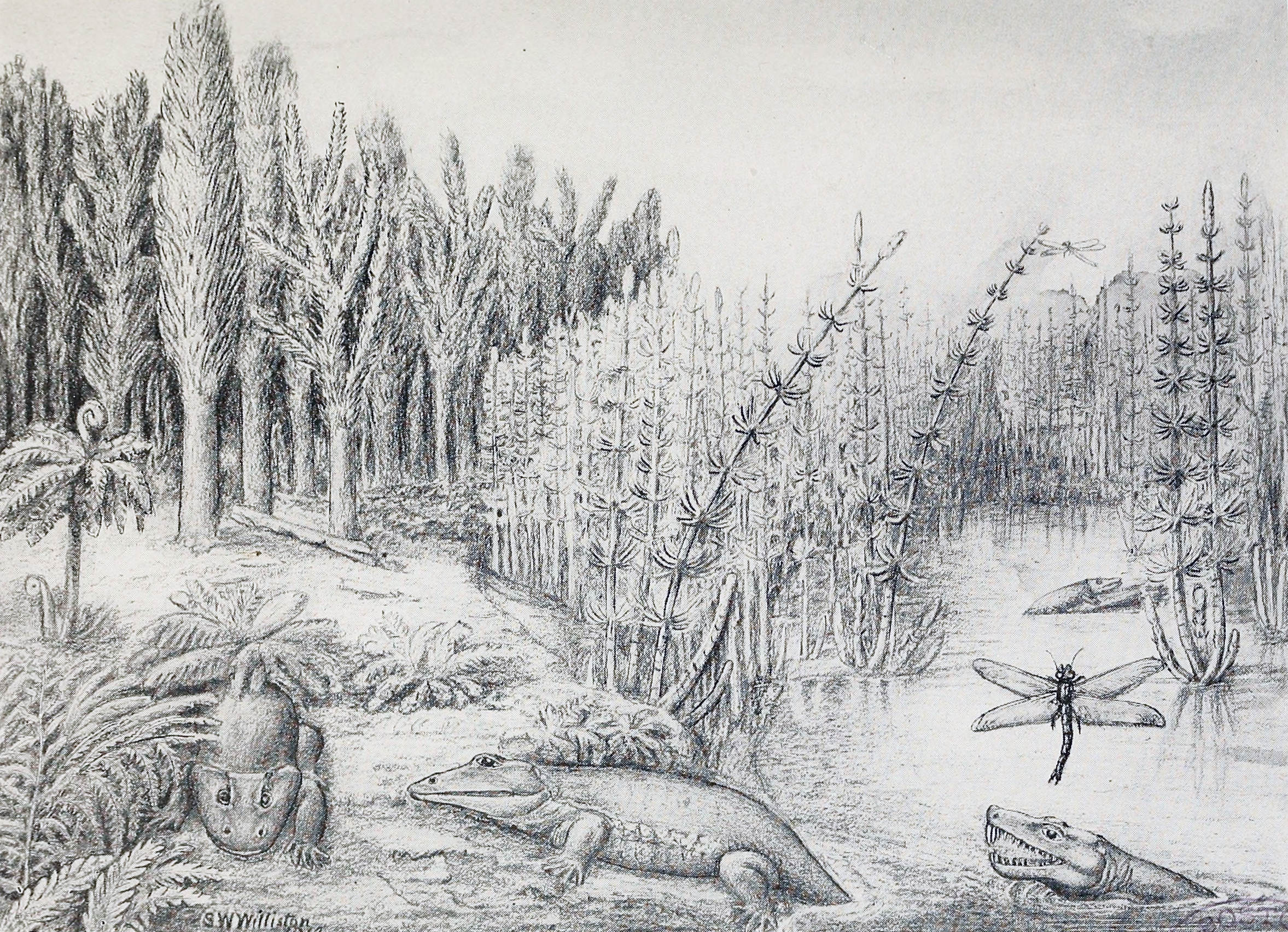 Identifier: waterreptilesofp1914will Title: Water reptiles of the past and present Year: 1914 (1910s) Authors: Williston, Samuel Wendell, 1851-1918 Subjects: Aquatic reptiles Publisher: Chicago, Ill., The University of Chicago Press Text Appearing Before Image: 3*N. Text Appearing After Image: 48 WATER REPTILES OF THE PAST AND PRESENT Upper Carboniferous, or Pennsylvanian, however, not only numer-ous footprints but the actual skeletons, or impressions of skeletons,have long been known in Europe and America. Until recentlyall these footprints and skeletons were supposed to be exclusivelyamphibian. We are now almost sure that some of them belongedto reptiles of lowly type, the earliest coming from near the middleof the Pennsylvanian of Linton, Ohio. The amphibians of thisperiod were, for the most part, salamander-like creatures of from afew inches to two or three feet in length. They all belong to thegroup collectively known as the Stegocephalia, except that verynear the close of the period there appeared small, slender, small